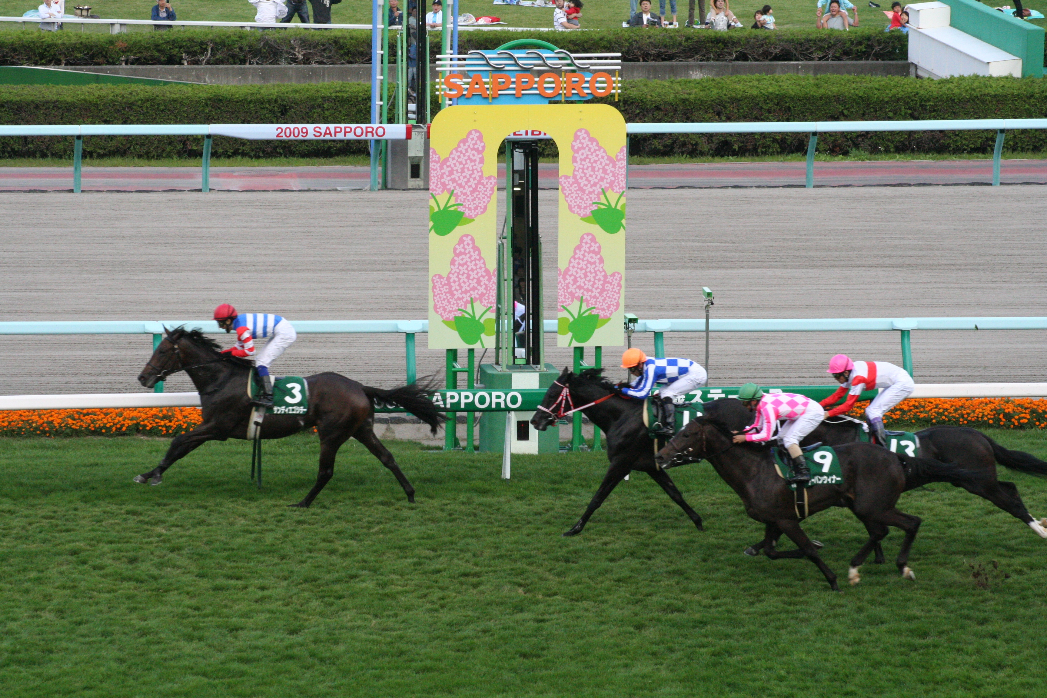 The 44th Sapporo 2sai Stakes